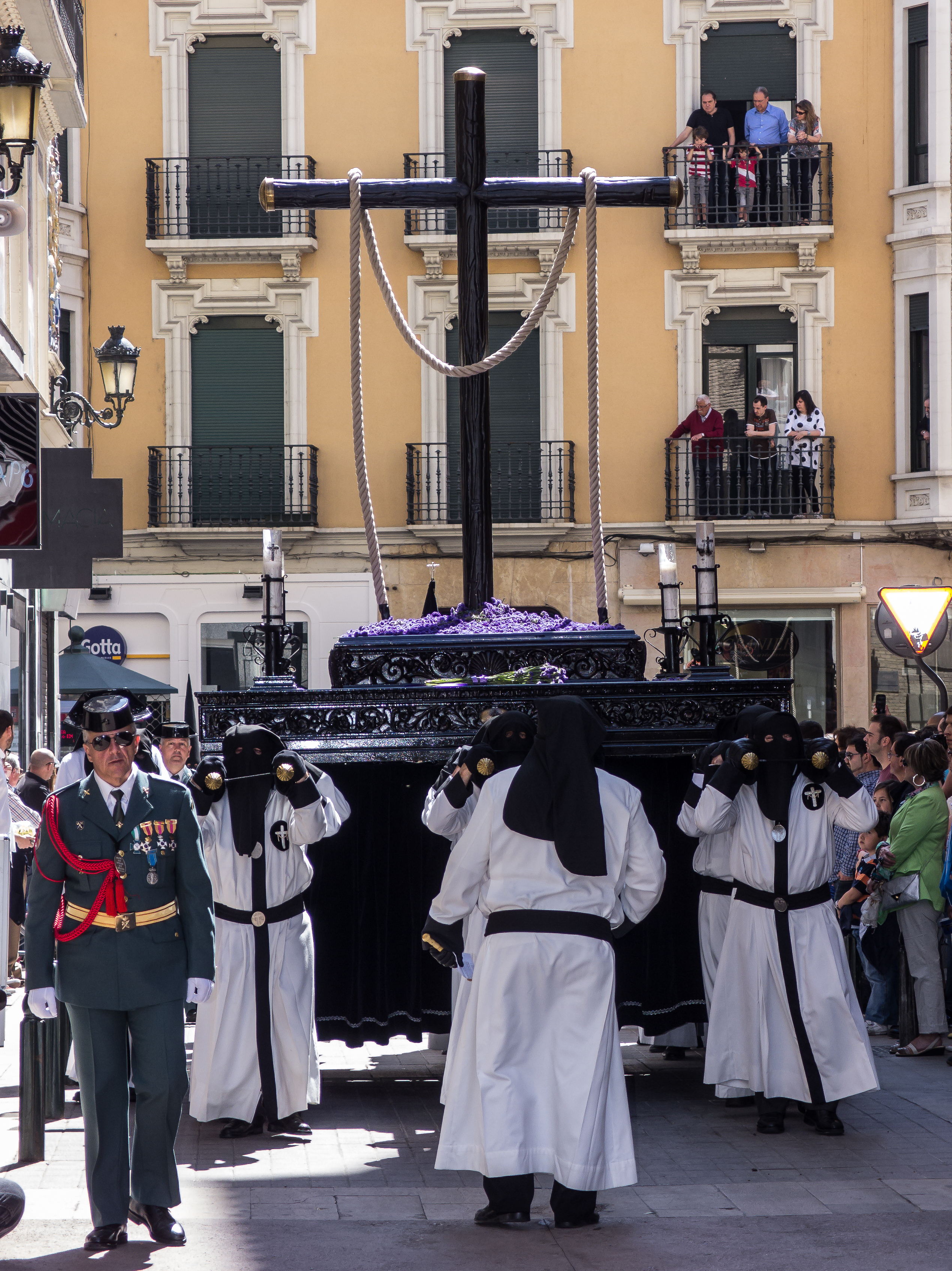 OLYMPUS DIGITAL CAMERA This is a photography of a Folklore festival in Spain (Wikidata id Q9075892).